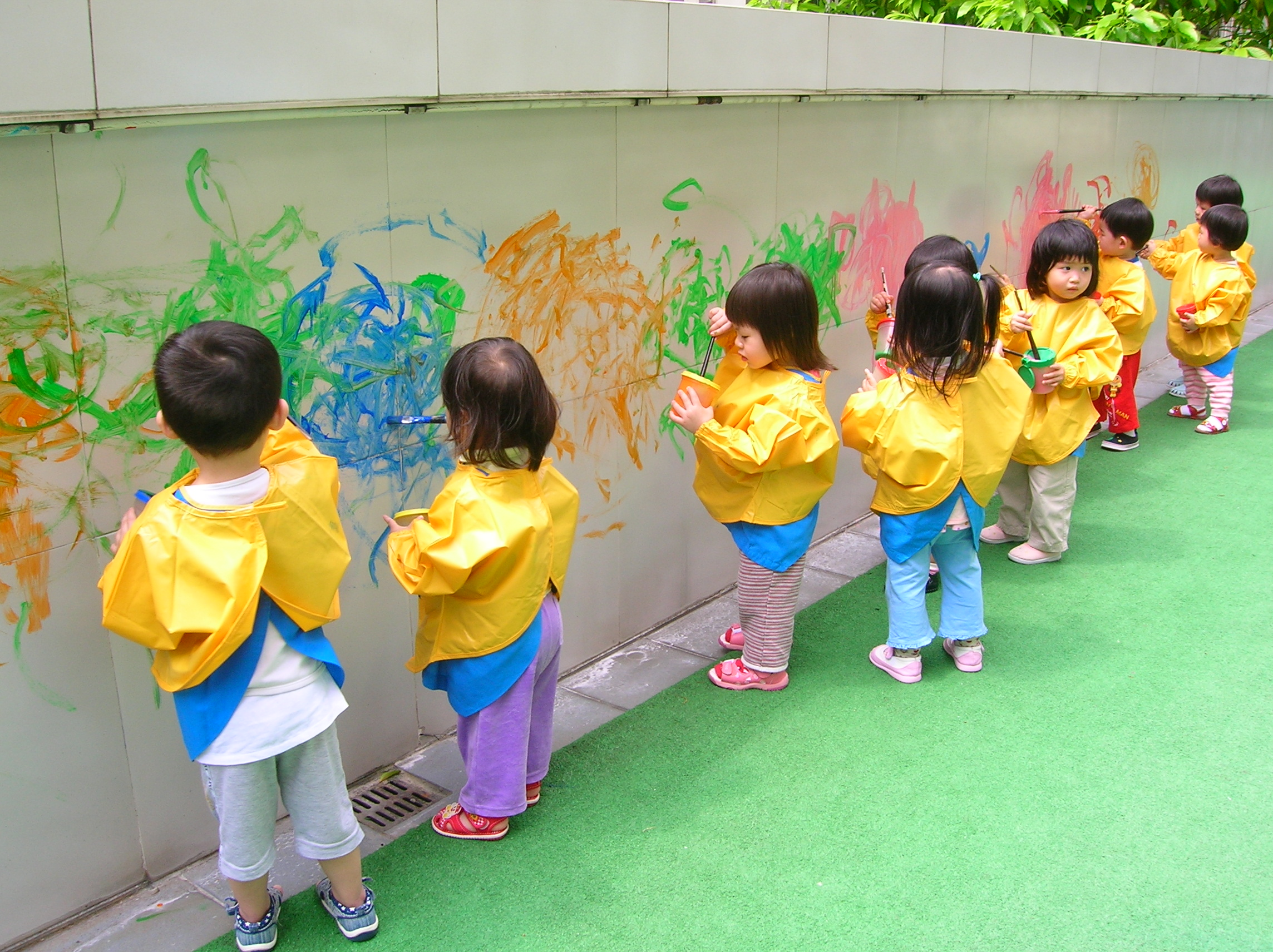 activity